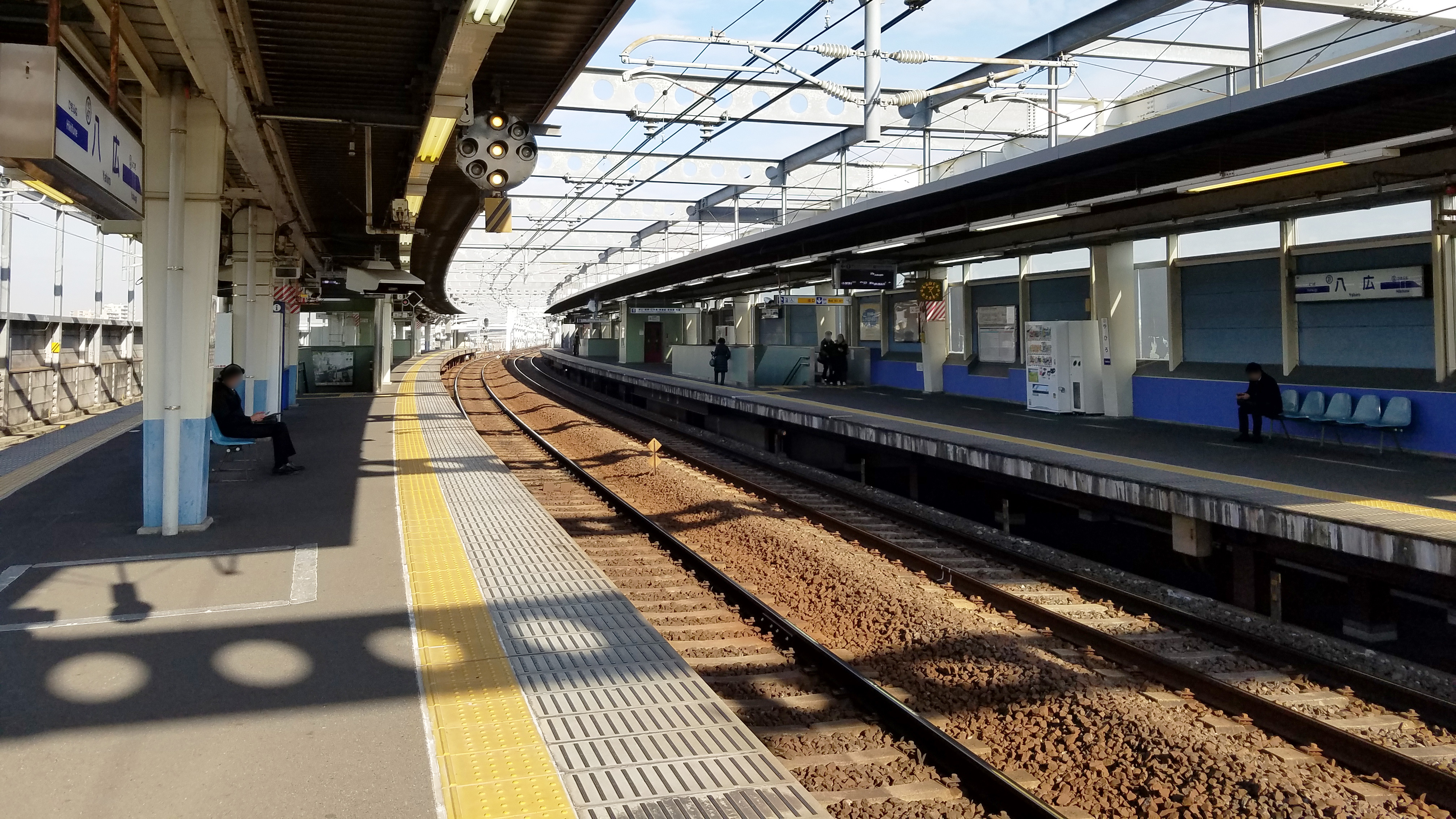 The platforms at Yahiro Station on the Keisei Oshiage Line in Sumida Ward, Tokyo, Japan